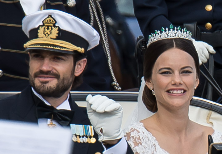 Cropped version of Prince Carl Philip and Princess Sofia in 2015-6.jpg